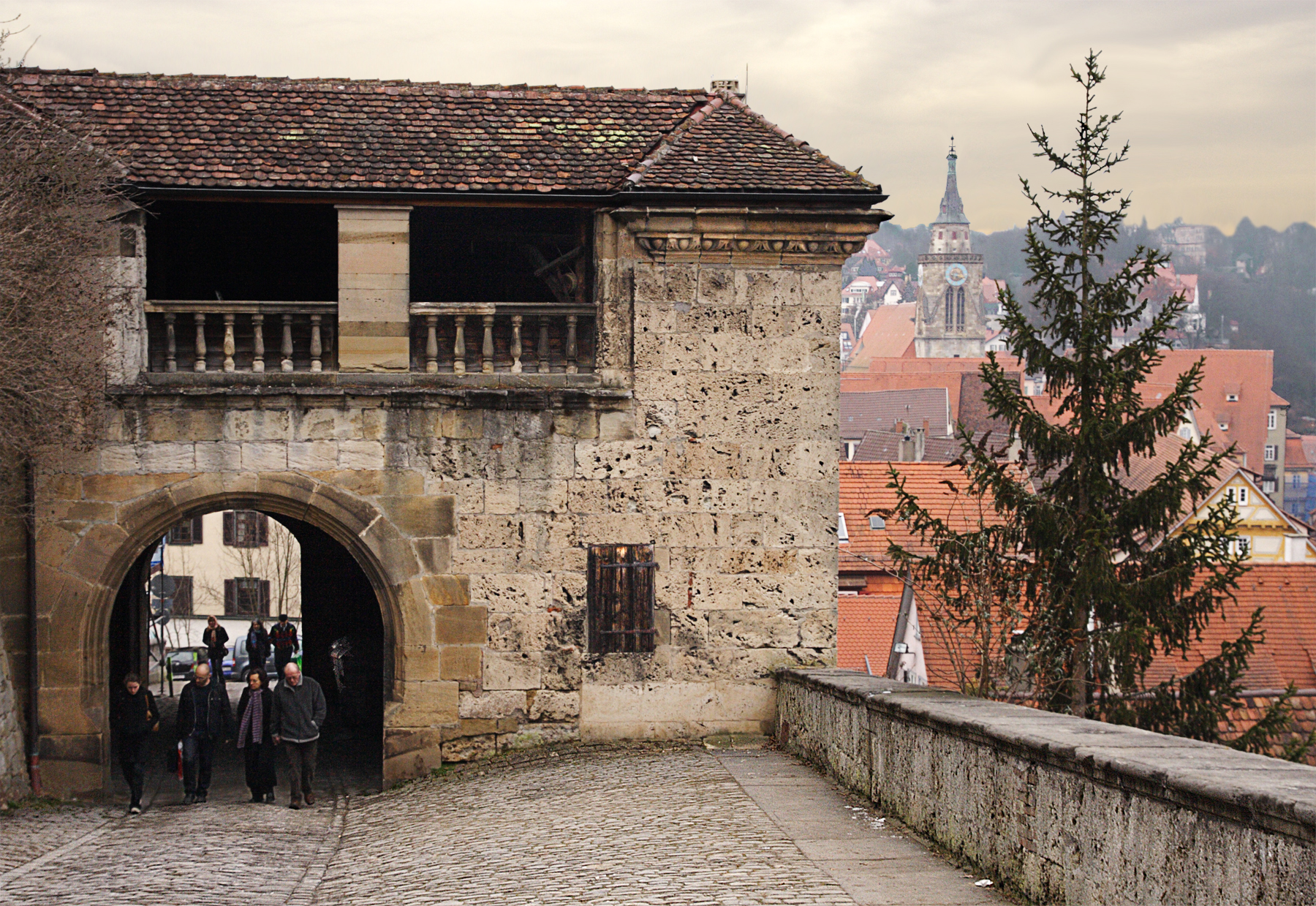 Unteres Schlosstor, Hohen Tübingen (lower castlegate), built 1606. Wall of the section to the right with its porous, tough, weatherproof Travertine rock (equiv. „Calcereous Tuff") is original. After its Holocene deposition, the calcereous tuff sediment underwent a diagenesis. Petrified, it became a popular building material, cropped from regional quarries in the karst of the Albtrauf.